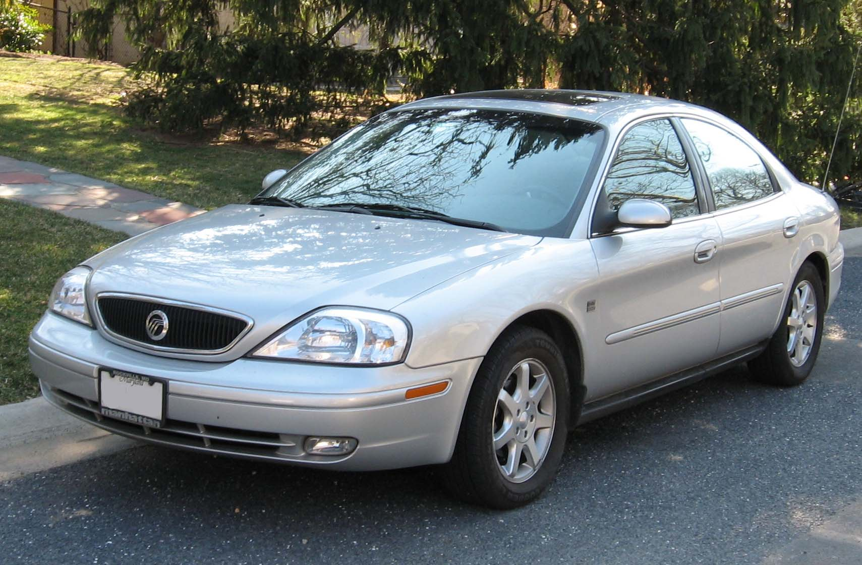 2000-2003 Mercury Sable photographed in USA.